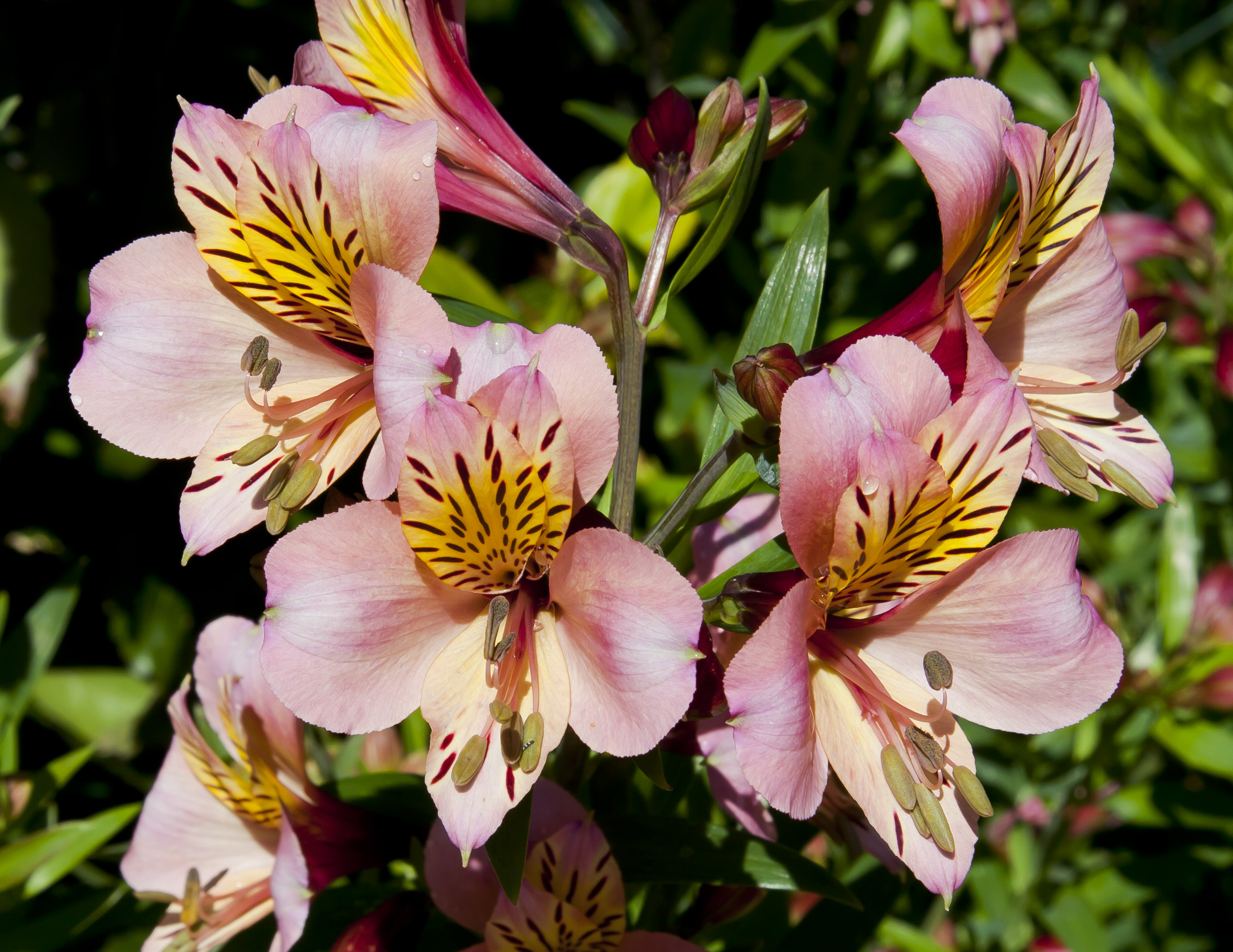 Peruvian Lily (Alstroemeria), mill garden, Sierra of Saint Philip, Setubal, Portugal